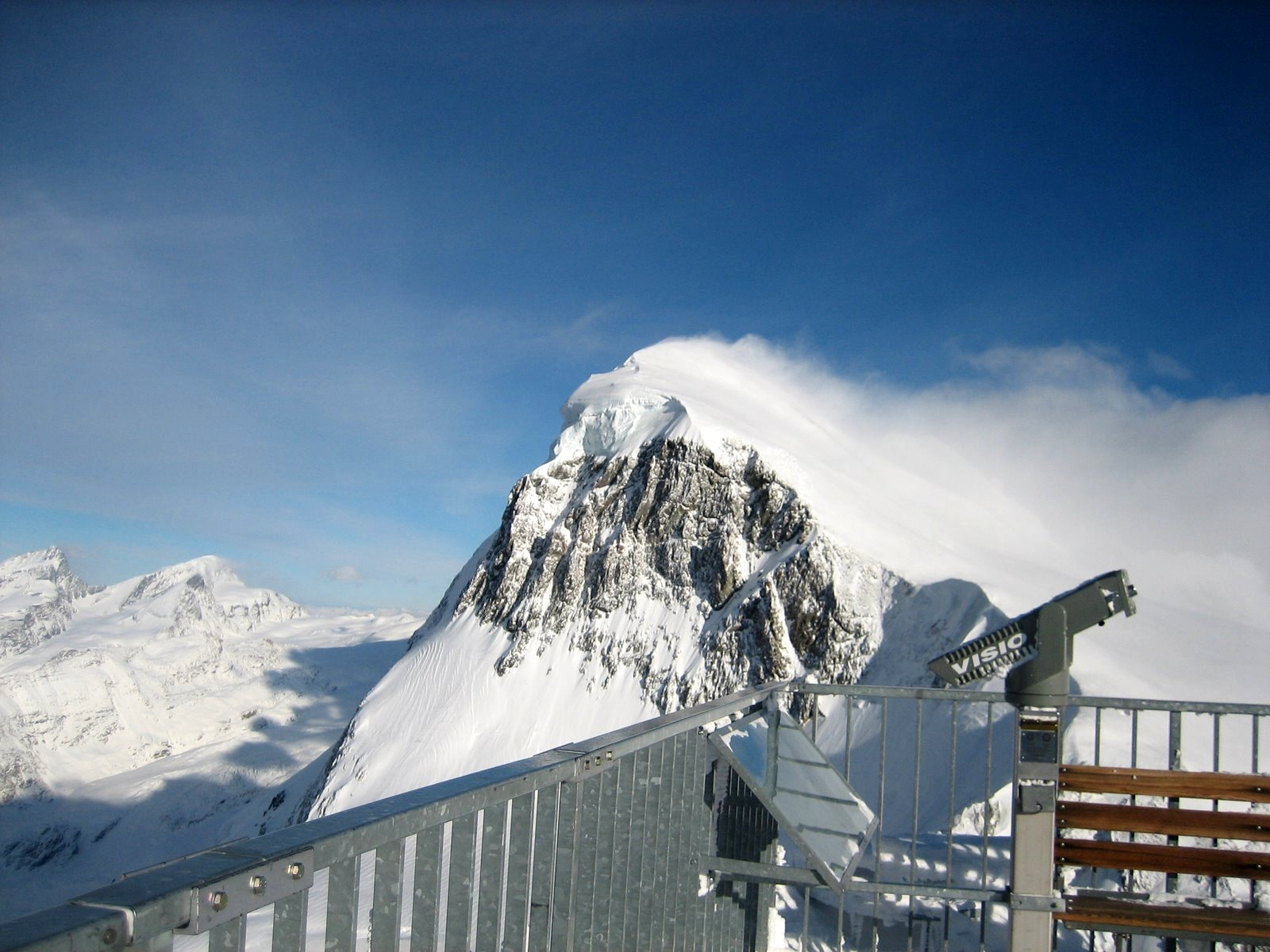 On the top of Klein Matterhorn (3,883 metres high), looking towards the Breithorn.